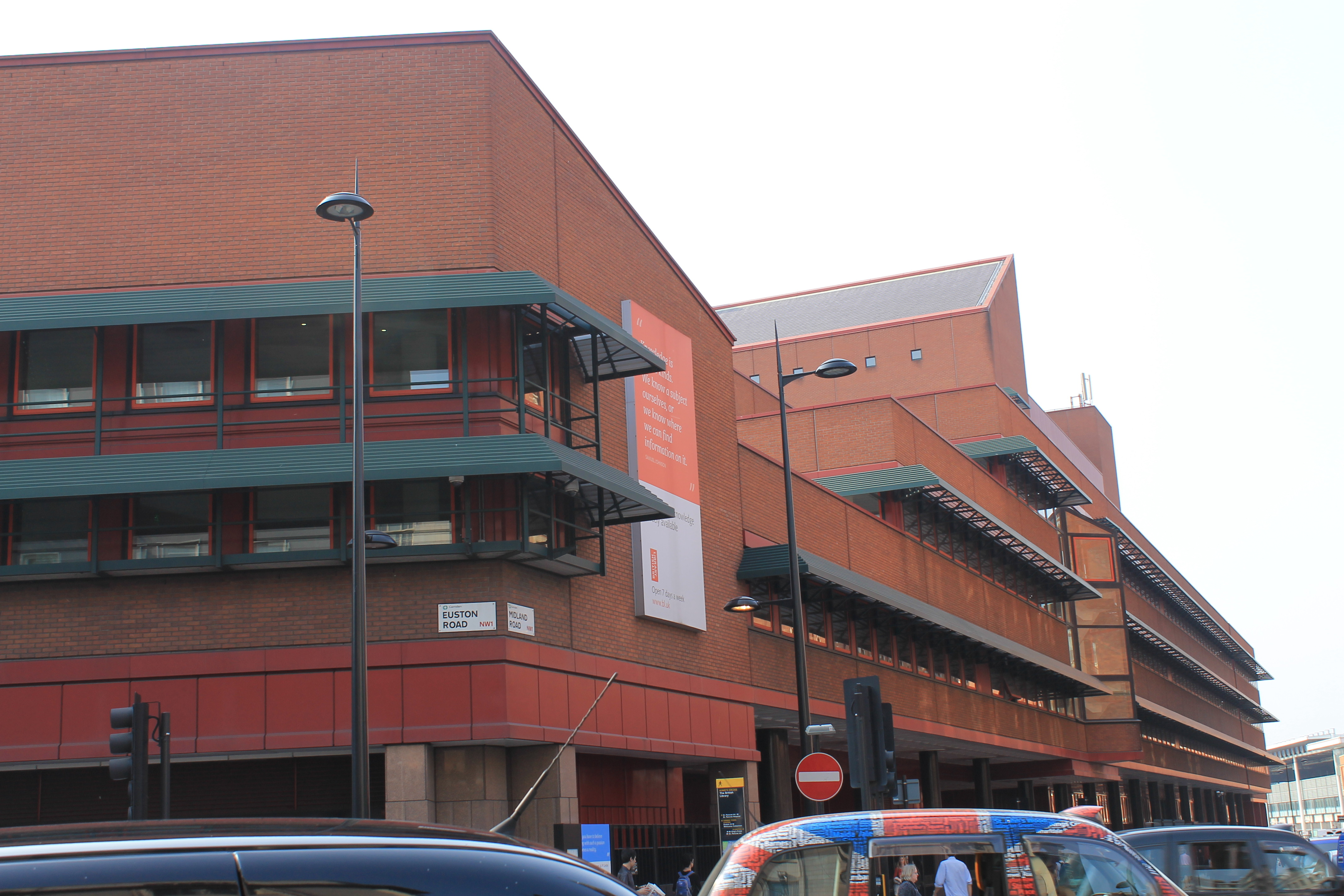 British Library